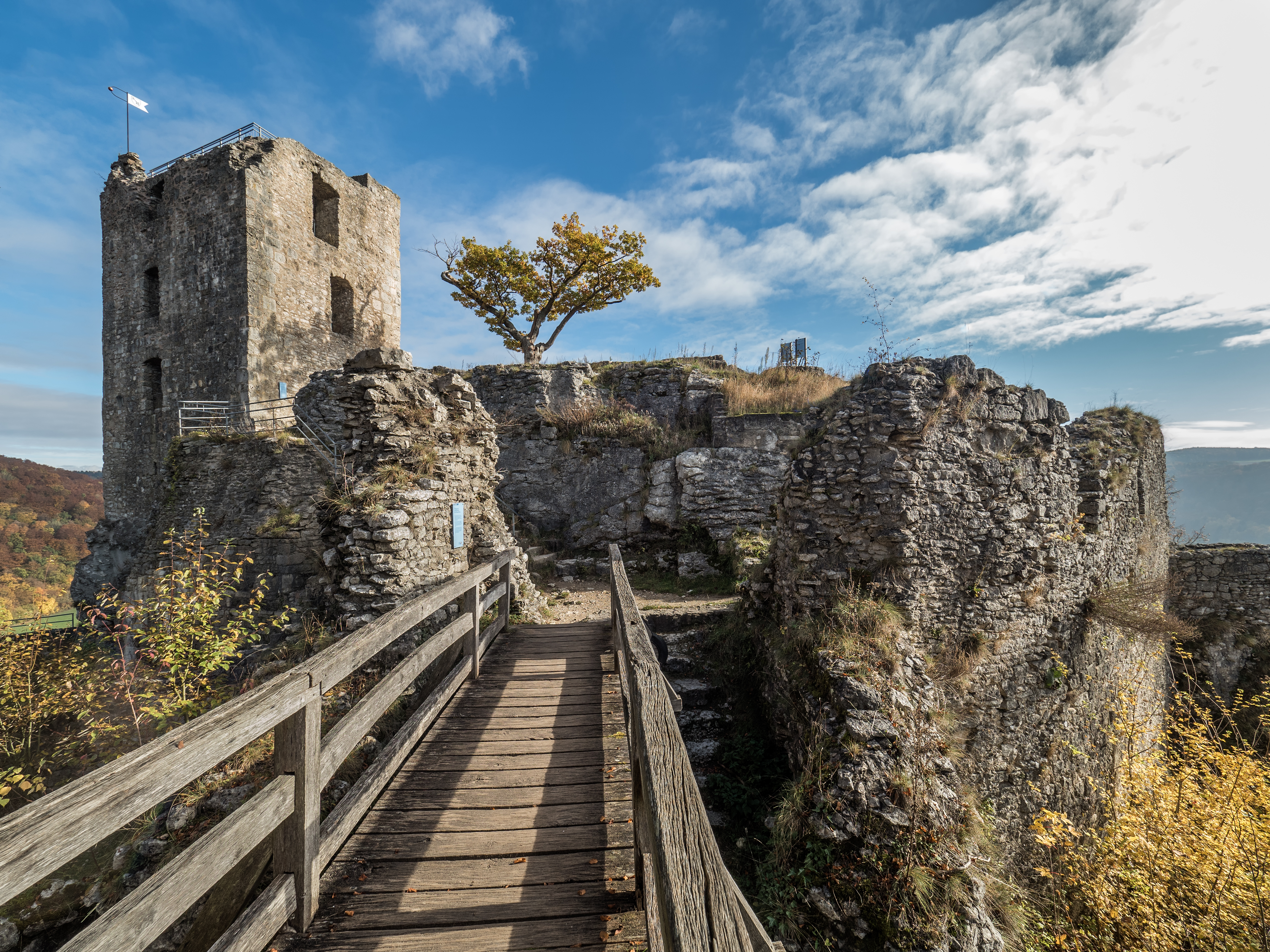 Bridge to Neideck Castle, Bavaria, Germany